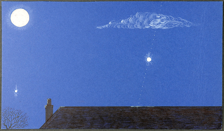 Description: Artwork sent to the Air Ministry depicting UFO sighting experienced by a member of the public. Date: January 1975 Our Catalogue Reference: AIR 2/18961 This image is from the collections of The National Archives. Feel free to share it within the spirit of the Commons. For high quality reproductions of any item from our collection please contact our image library.